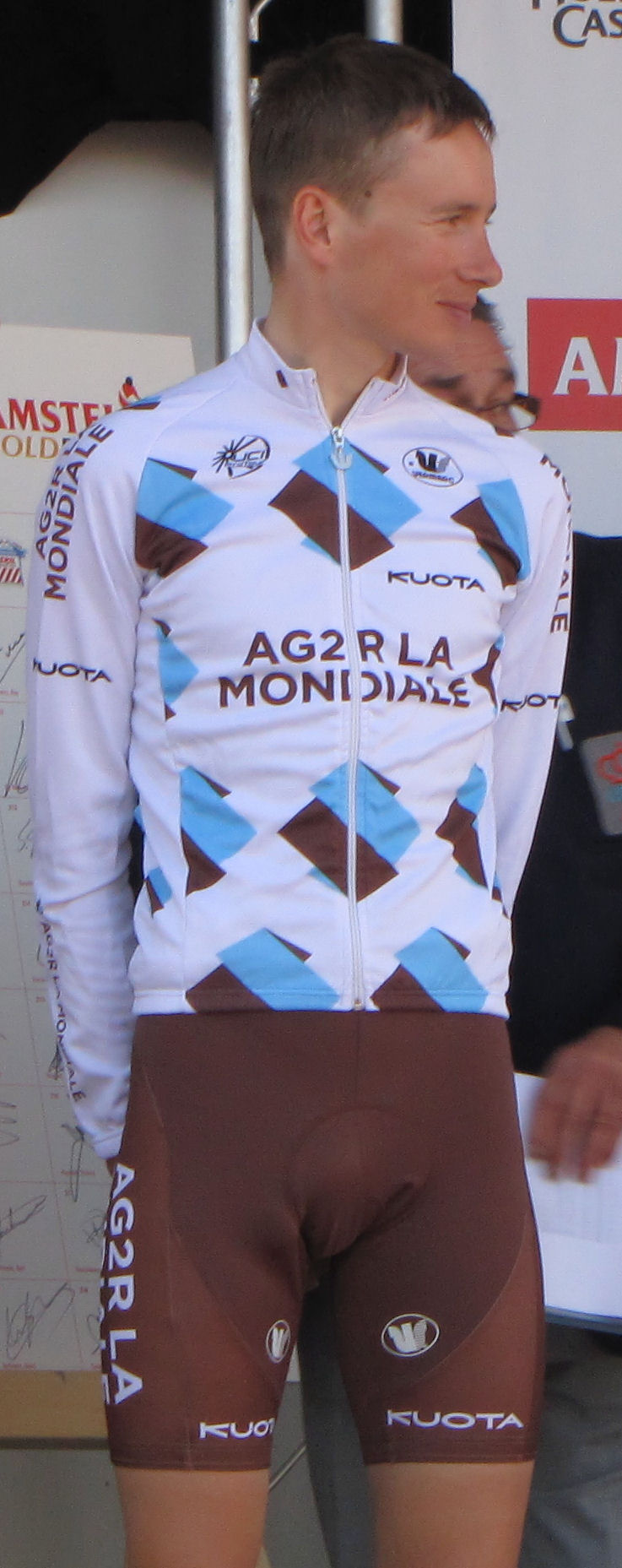 René Mandri